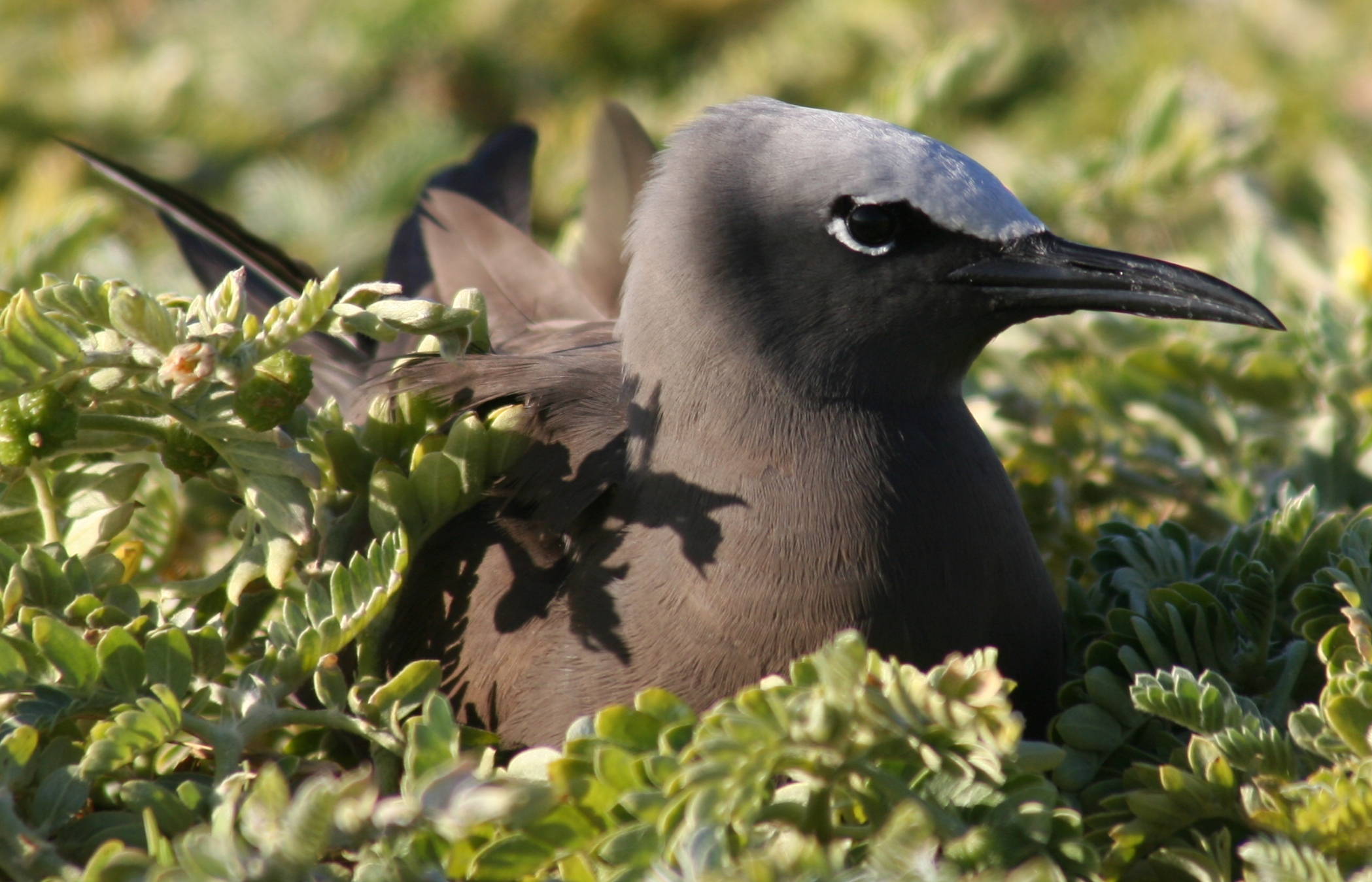 Brown Noddy Anous stolidus nesting, taken on Tern Island, French Frigate Shoals